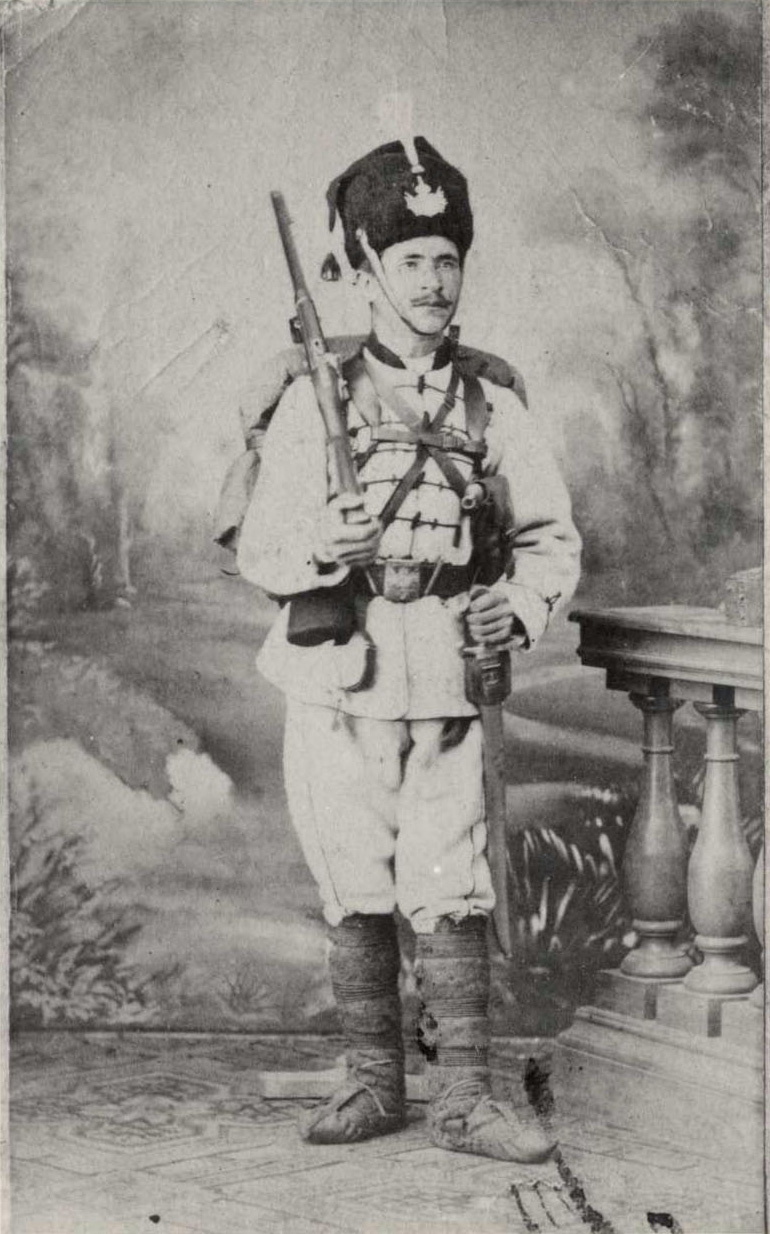 Branislav Veleshki, Belgrade, 1863. Born as Georgi Atanasov Levkov, Bulgarian revolutionary (1834 - 1919)